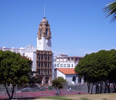 Mission High School, from Dolores Park in the Mission District, San Francisco.